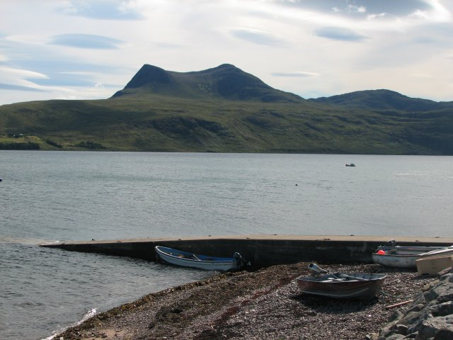 Slipway, Badluarach A passenger ferry once ran from this jetty across Little Loch Broom to Scoraig on the north shore.